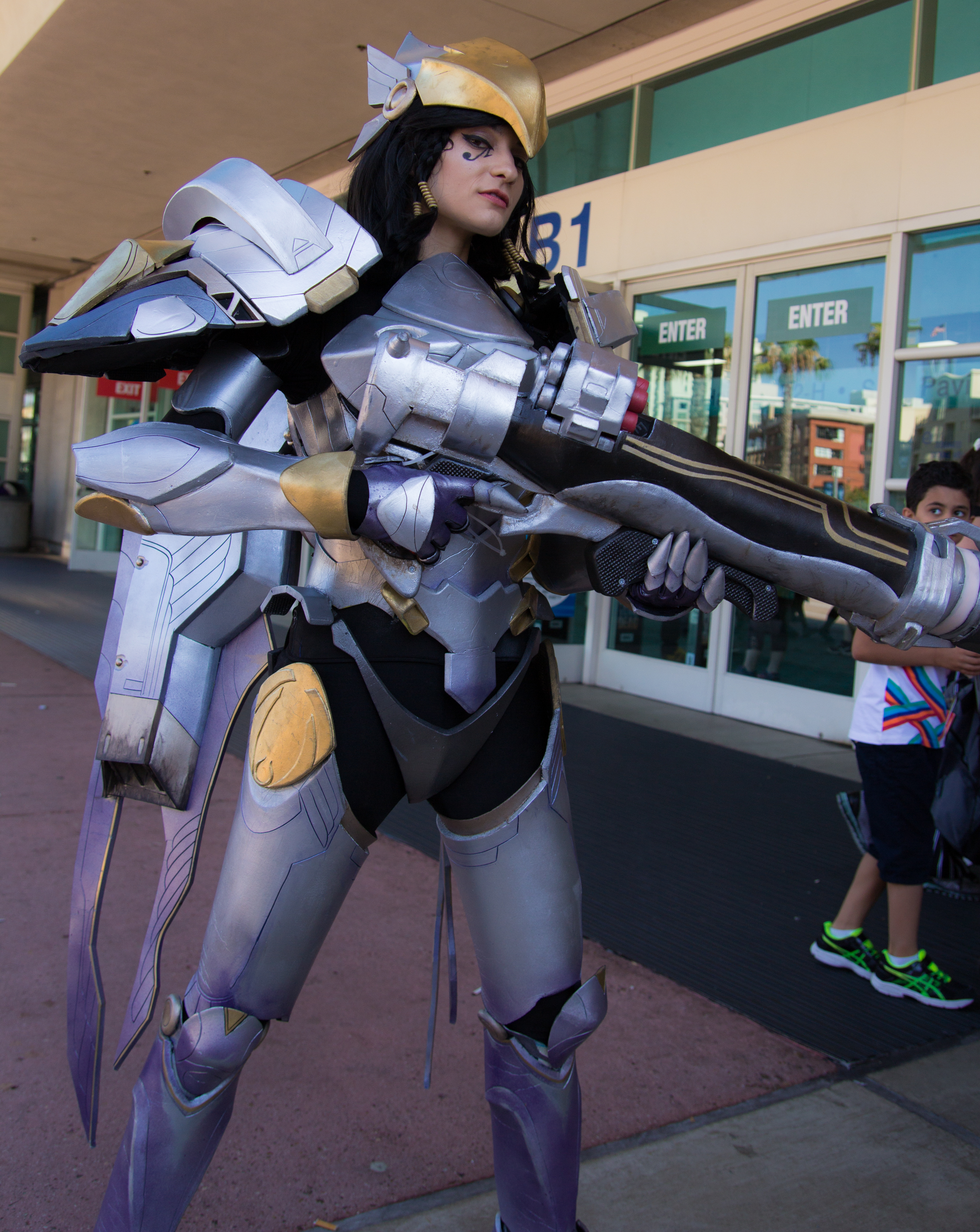 A cosplay of Pharah from Overwatch